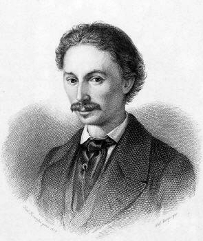 German singer and conductor Julius Stockhausen (1826-1906) by Carl-Otto Berger (1839-19??) after Robert Krausse (1834-1903).